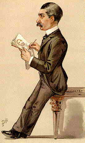 Caricature of Leslie Ward. Caption read "Spy".